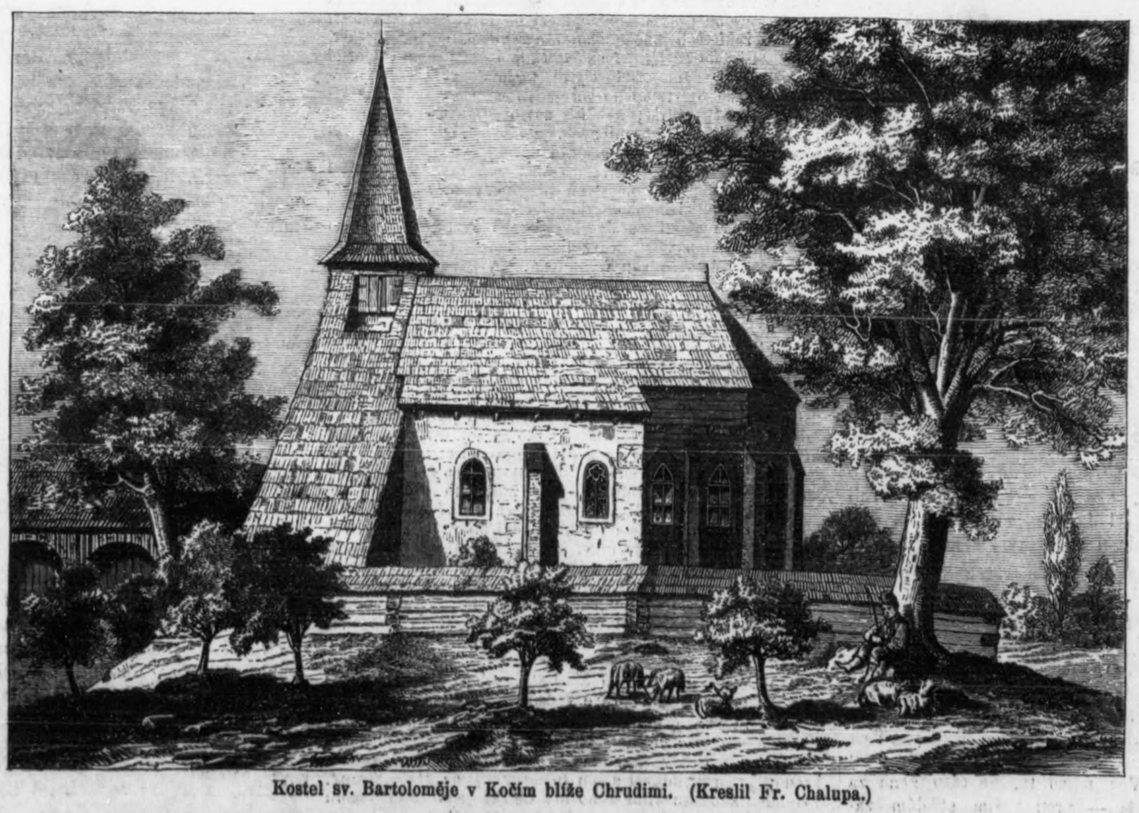 Church of Saint Bartholomew in the village Kočí in Eastern Bohemia (present-day Czech Republic).